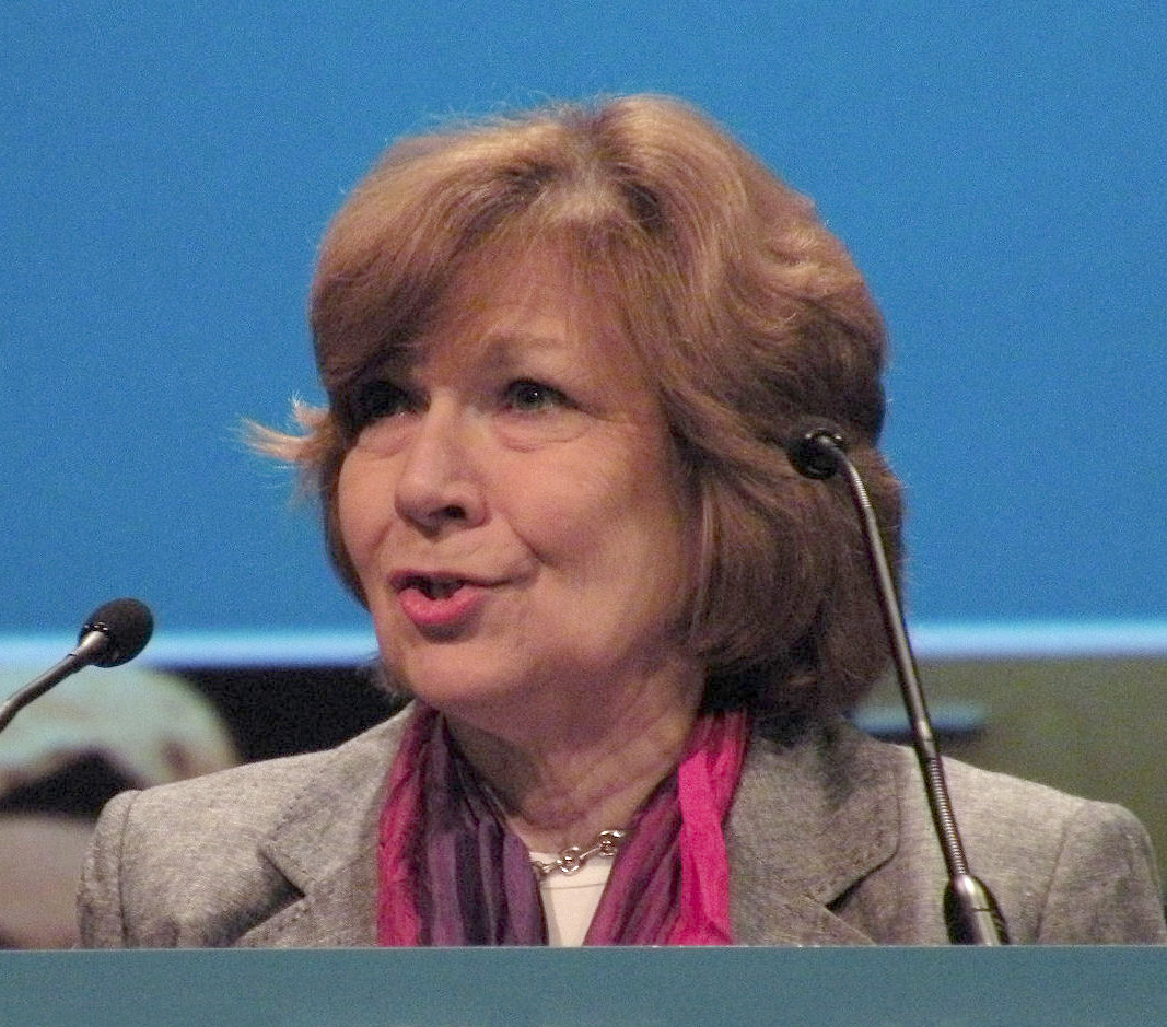 Susan Garden, Baroness Garden of Frognal, addressing a Liberal Democrat conference in the International Convention Centre, Birmingham